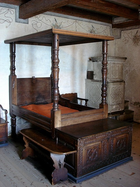 Chillon